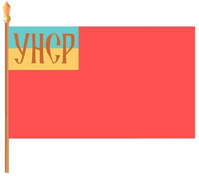 Flag of Ukrainian People's Navy of the Socialist Republic, April 1919.